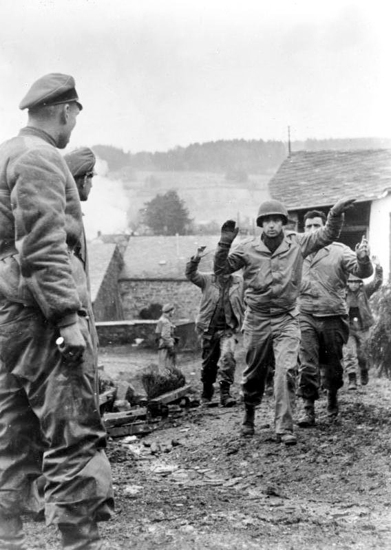 ADN-Zentralbild II. Weltkrieg 1939-1945 Kämpfe an der deutschen Westgrenze im Januar 1945. Grenadiere der faschistischen deutschen Wehrmacht haben ein von USA-Amerikanern besetztes Dorf in überraschendem Angriff genommen. Die Besatzung geht mit erhobenen Händen in ein Gefangenensammellager. Aufnahme: Büschel Translation ADN central picture II. World war 1939-1945 Fights at the German west border in January 1945. Infantry of the fascist German armed forces took a village occupied by USA Americans in surprising attack. The crew goes with raised hands into a prisoner collecting camp. Admission: Bundle [Scherl Bilderdienst] Information added by Wikimedia users.American soldiers of the 3rd Battalion of U.S. 119th Infantry are taken prisoner by members of Kampfgruppe Peiper in Stoumont, Belgium on 19 December 1944.